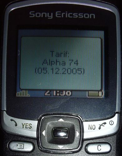 Image of USSD on Sony Ericsson T290i